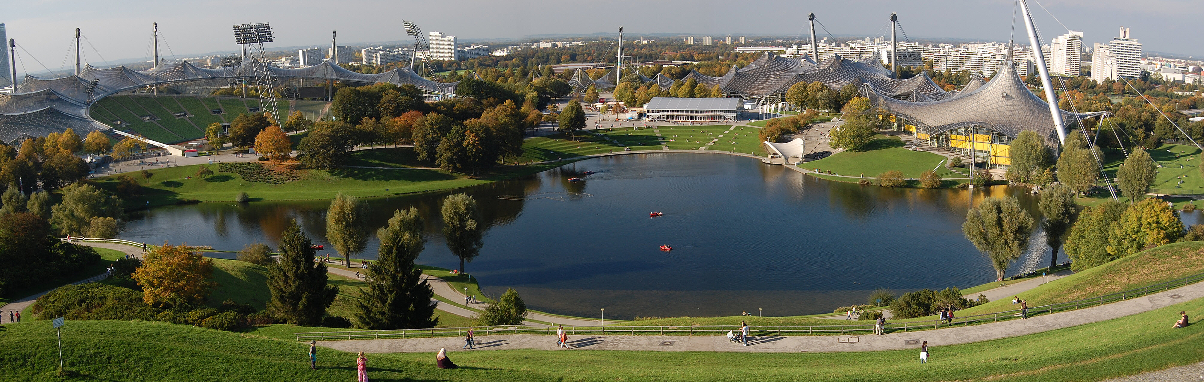 Olympiapark in Munich, Bavaria, Germany